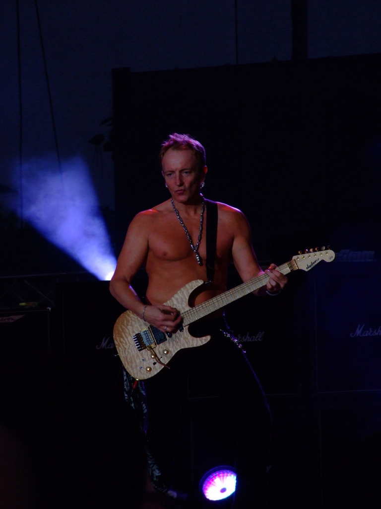 Phil Collen (from Def Leppard) [Fujifilm FinePix S6500fd]